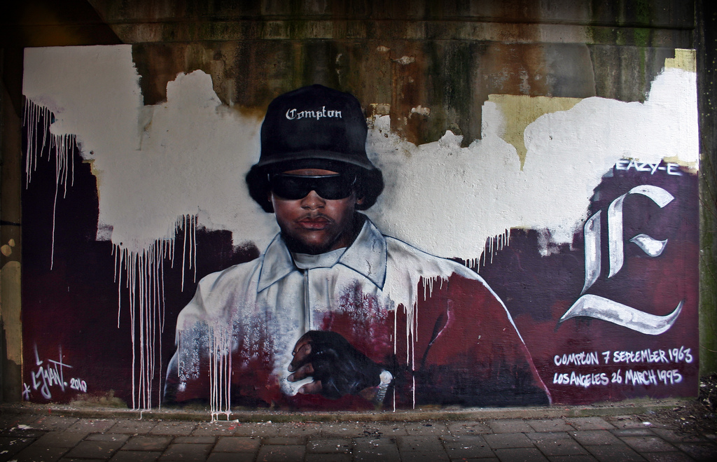 memorial of Eazy-E made by streetartist LJvanT in the city of Leeuwarden, The Netherlands, 26th March 2010